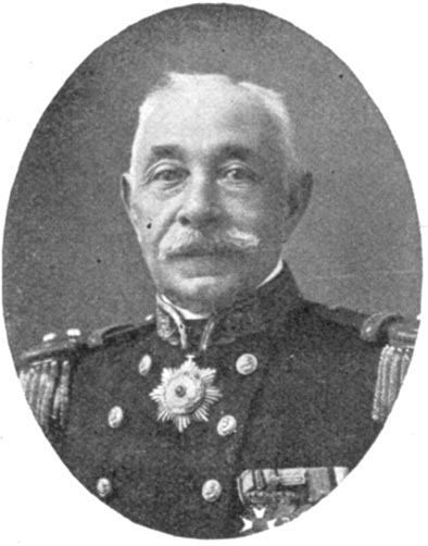 Willen Jan Derx